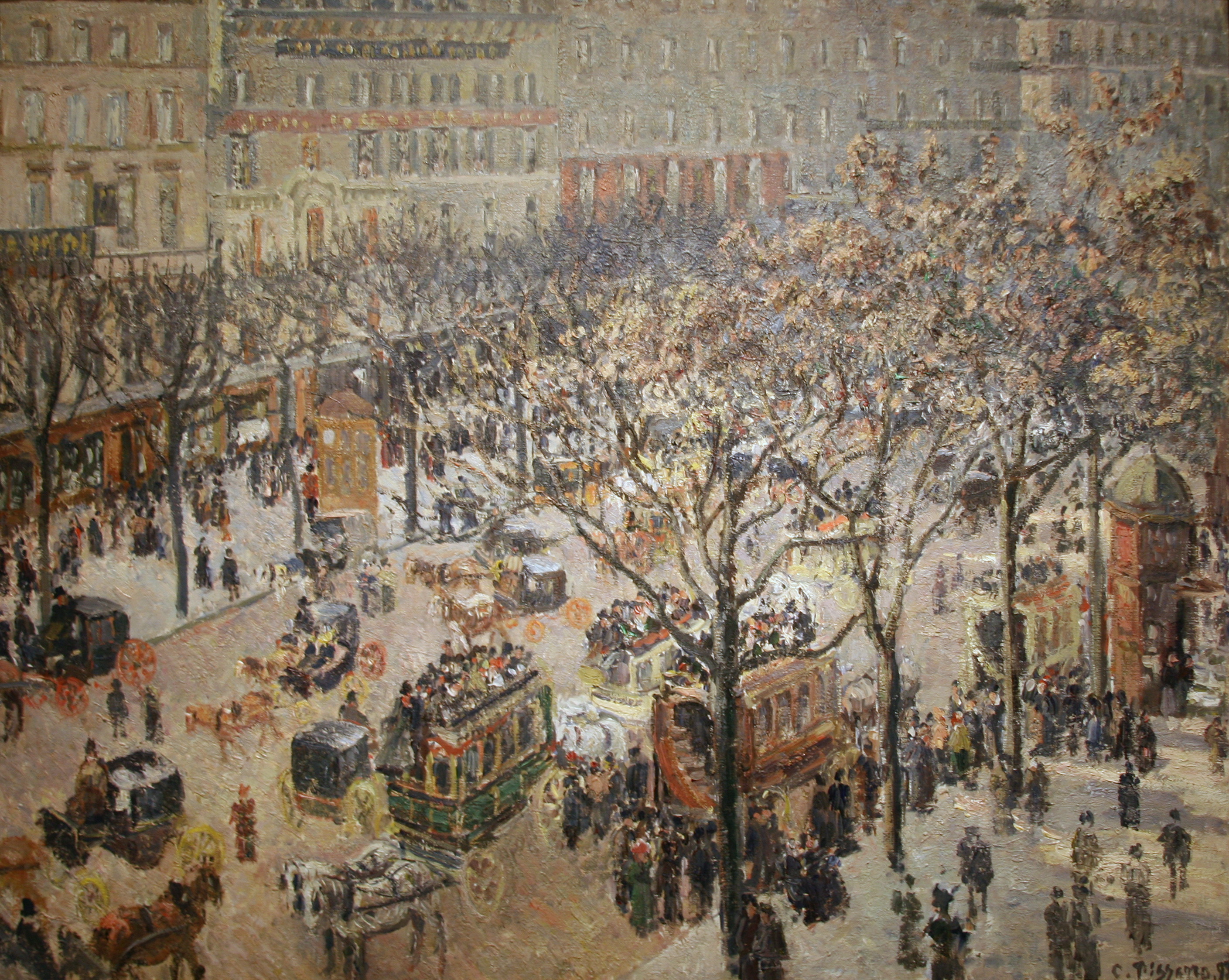 Boulevard des Italiens, Morning, Sunlight, 1897 by Camille Pissarro, oil on canvas National Gallery of Art, Washington, D. C., online collection